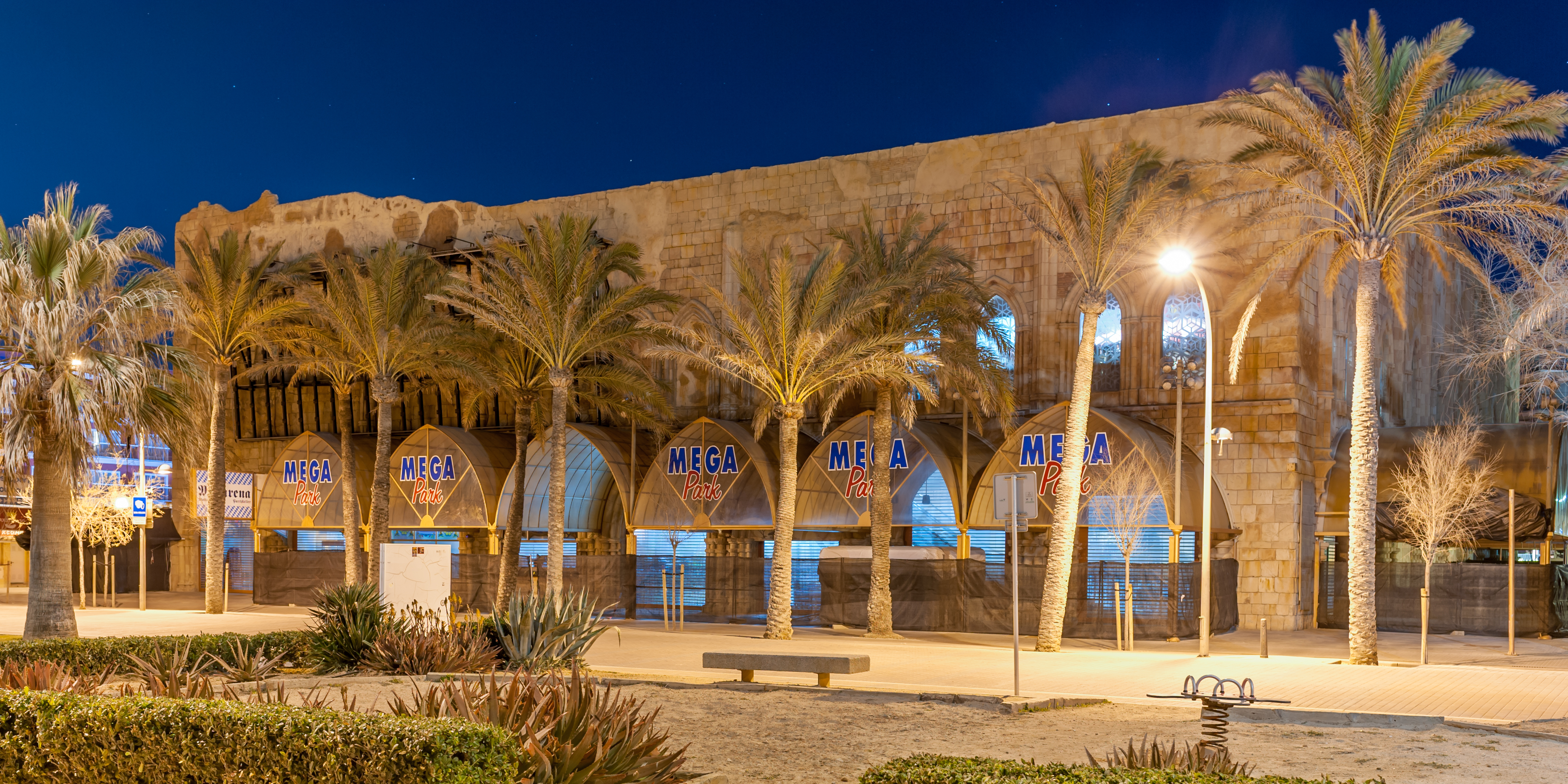 Platja de Palma, Mega Park